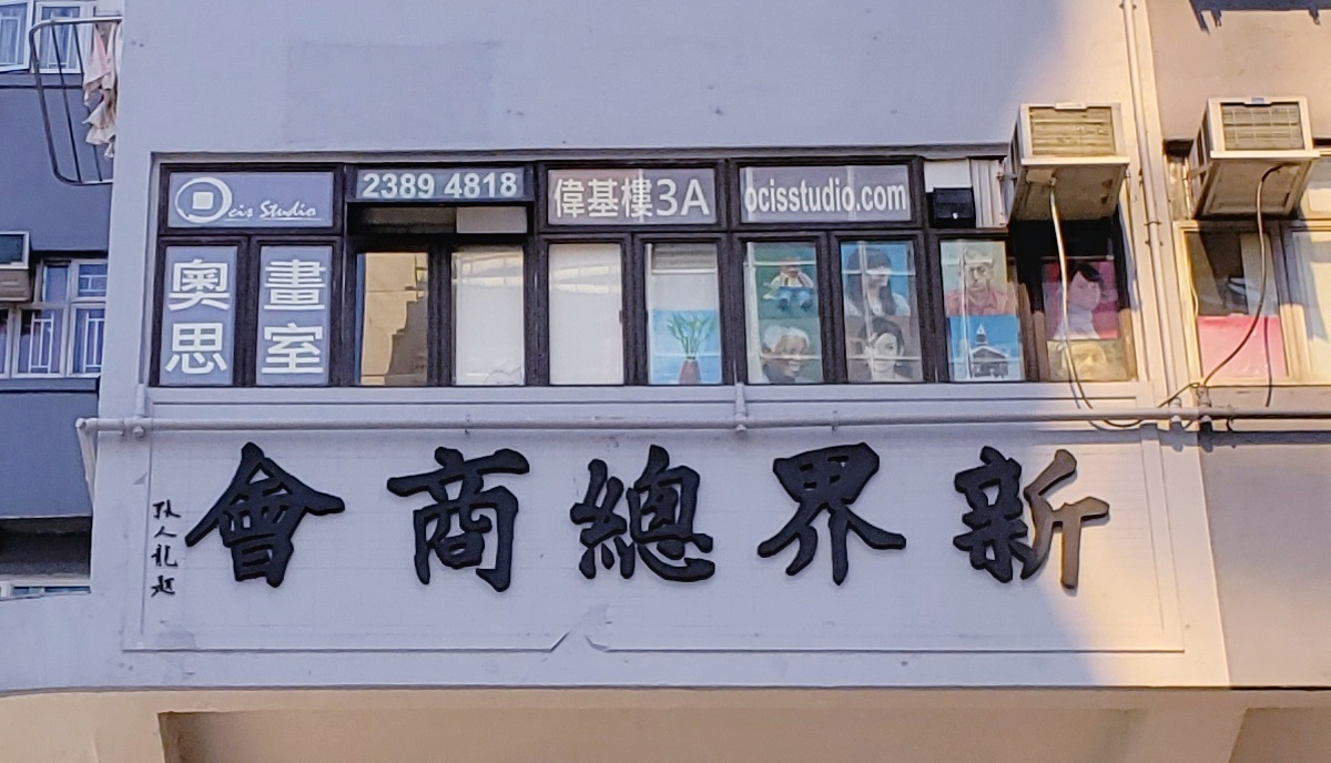 The former office of the New Territories General Chamber of Commerce on 3/F, Wai Kee House, 89-91 Sai Yee Street, Mong Kok, Kowloon